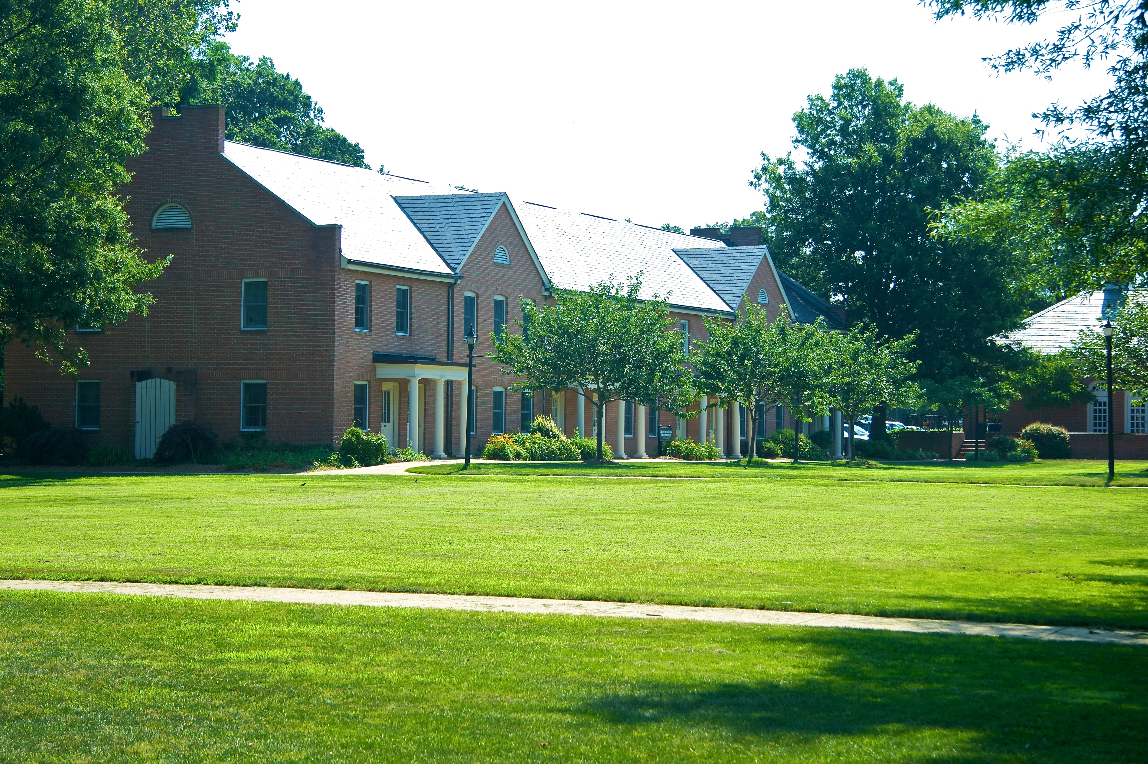 Student townhouses, St. Mary's College of Maryland. Photo by Rob Friesel.